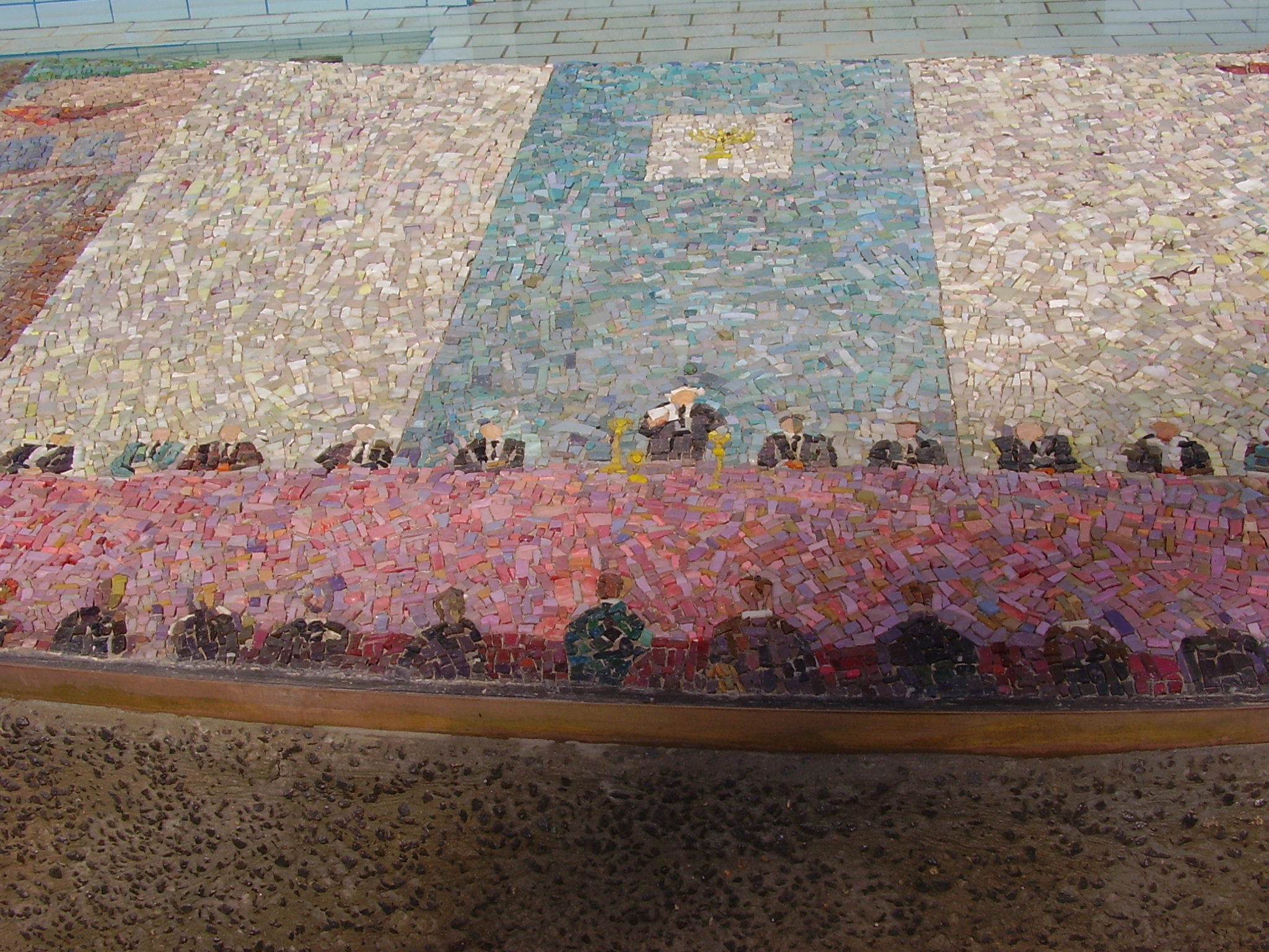 Nahum Gutman's mosaic in Tel Aviv